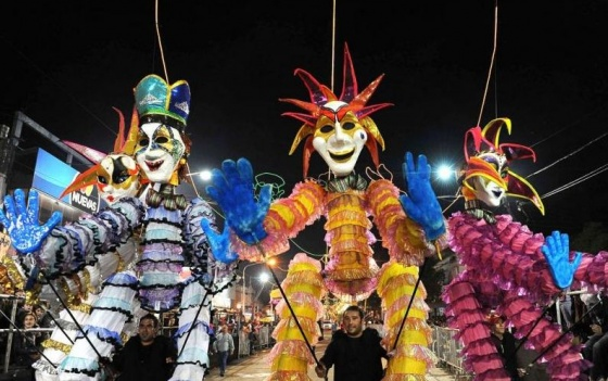 Los Venecianos